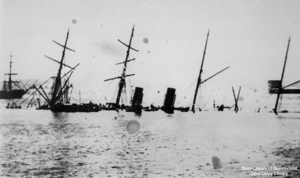 5,524 GRT passenger steamship Austral, built in 1881 in Glasgow for the Orient SN Co. She sank in Sydney Harbour on 11 November 1882, killing four people. She was refloated 28 February 1883 and remained in service until 1903. (From description supplied with photograph.)